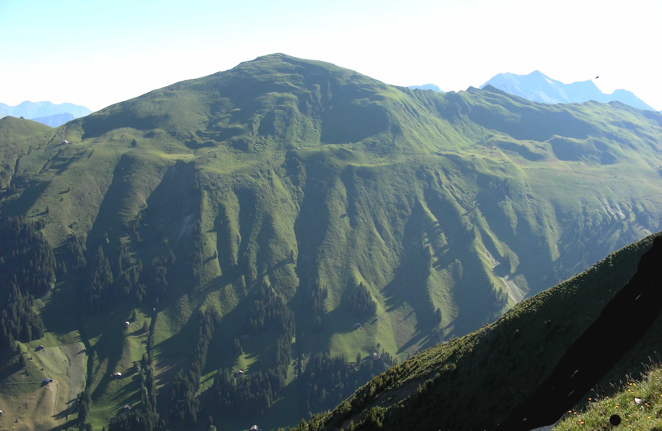 Front part of Fermelmäder from the top of Albristhorn